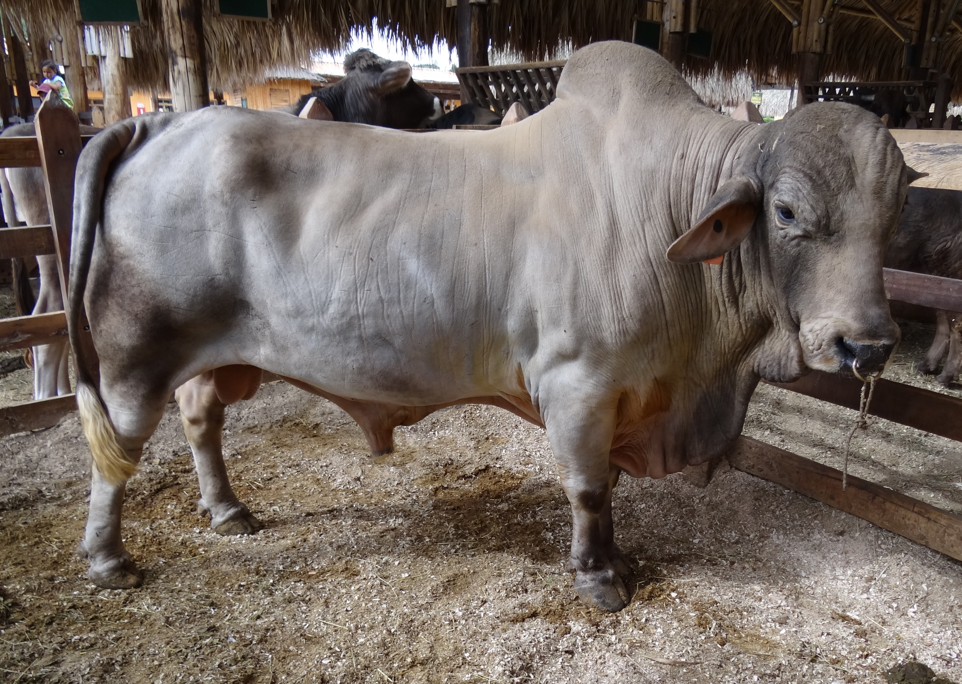 Specimen of the breed Charbray of 850 kg at the theme park Panaca Sabana, Colombia